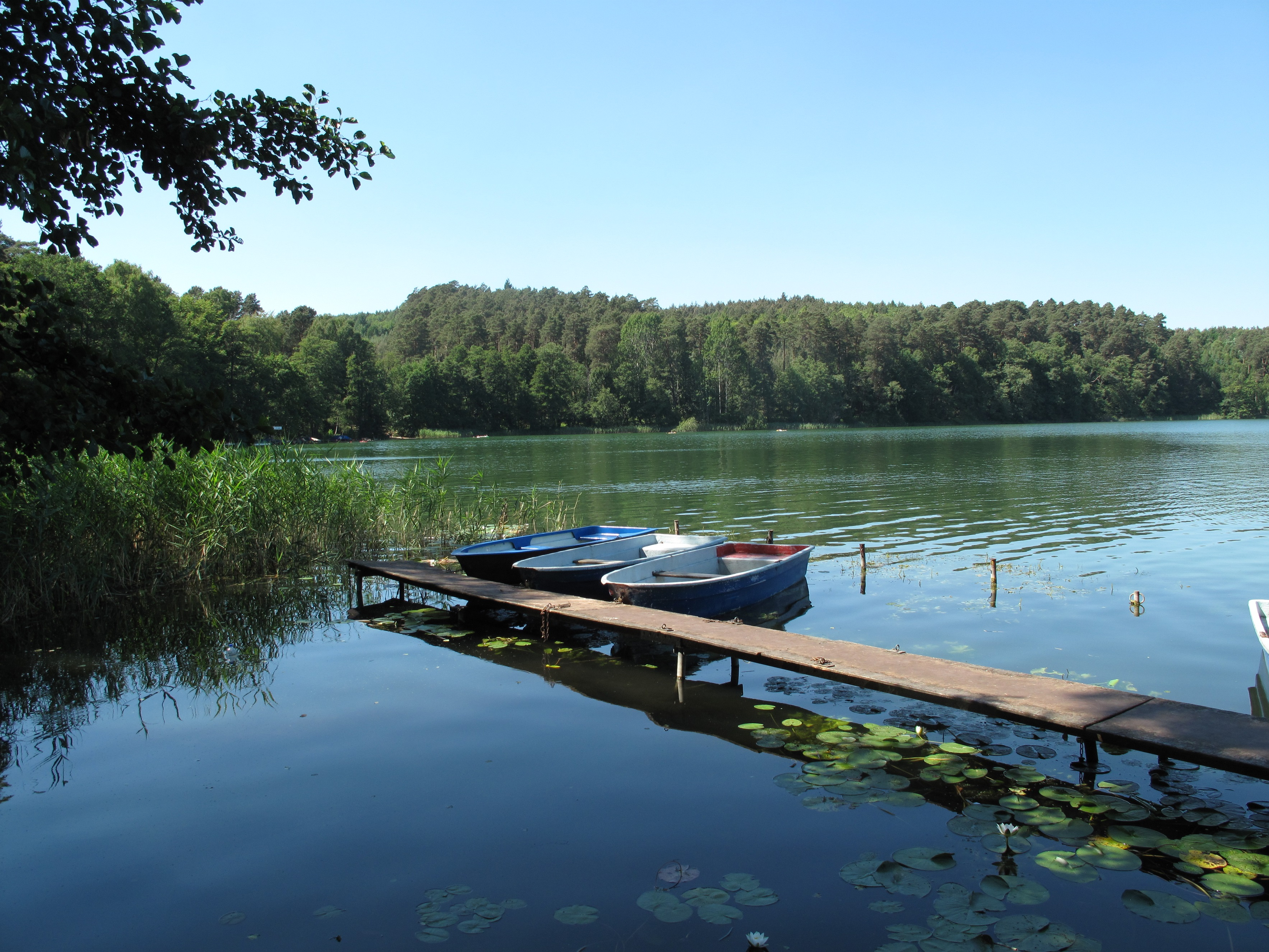 The Springsee is a lake in Limsdorf, which is a part of the town Storkow, District Oder-Spree, Brandenburg, Germany. The lake covers about 57 hectare and has a depth of max. 20 meters. It is situated in the Dahme-Heideseen Nature Park.